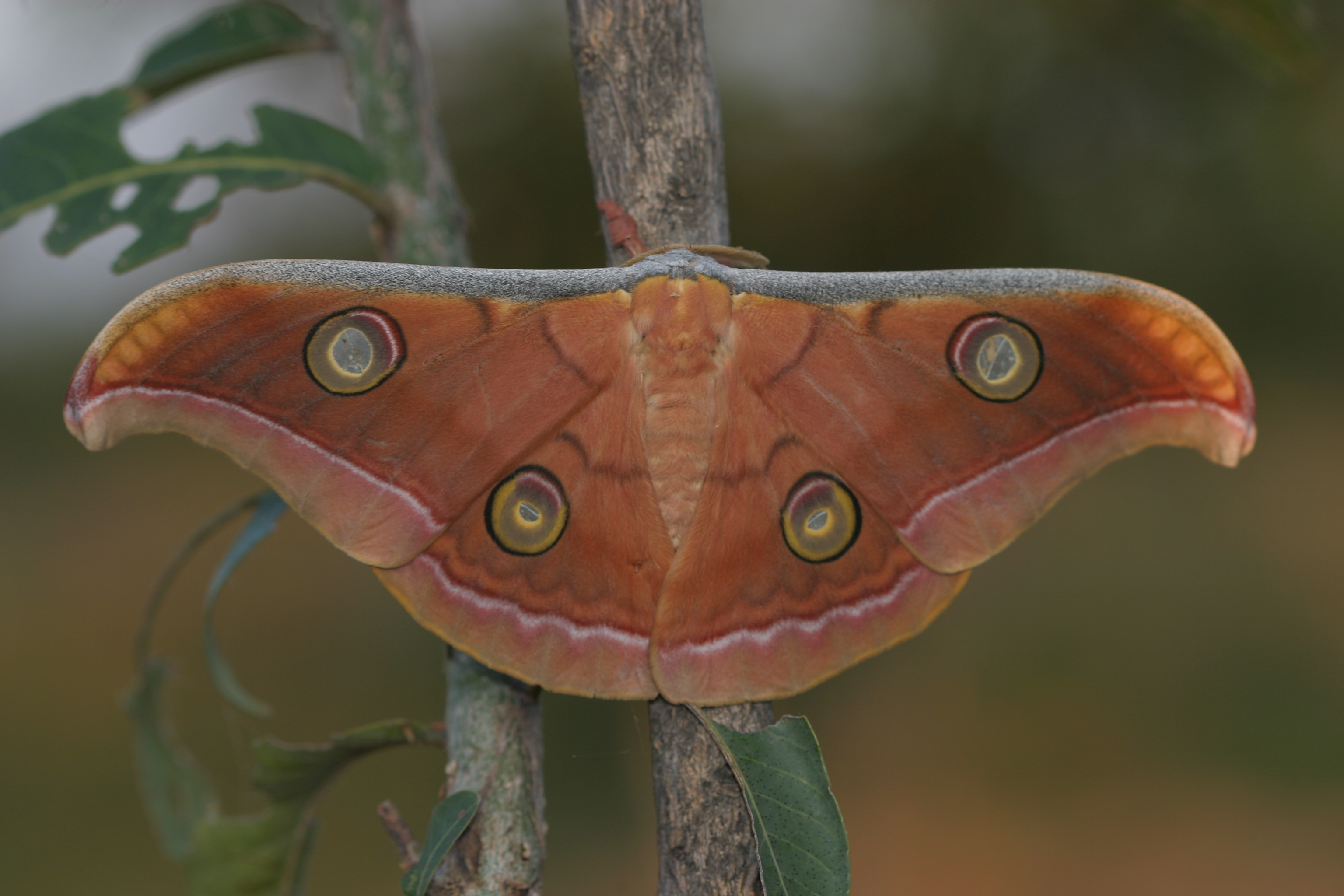 moths from India